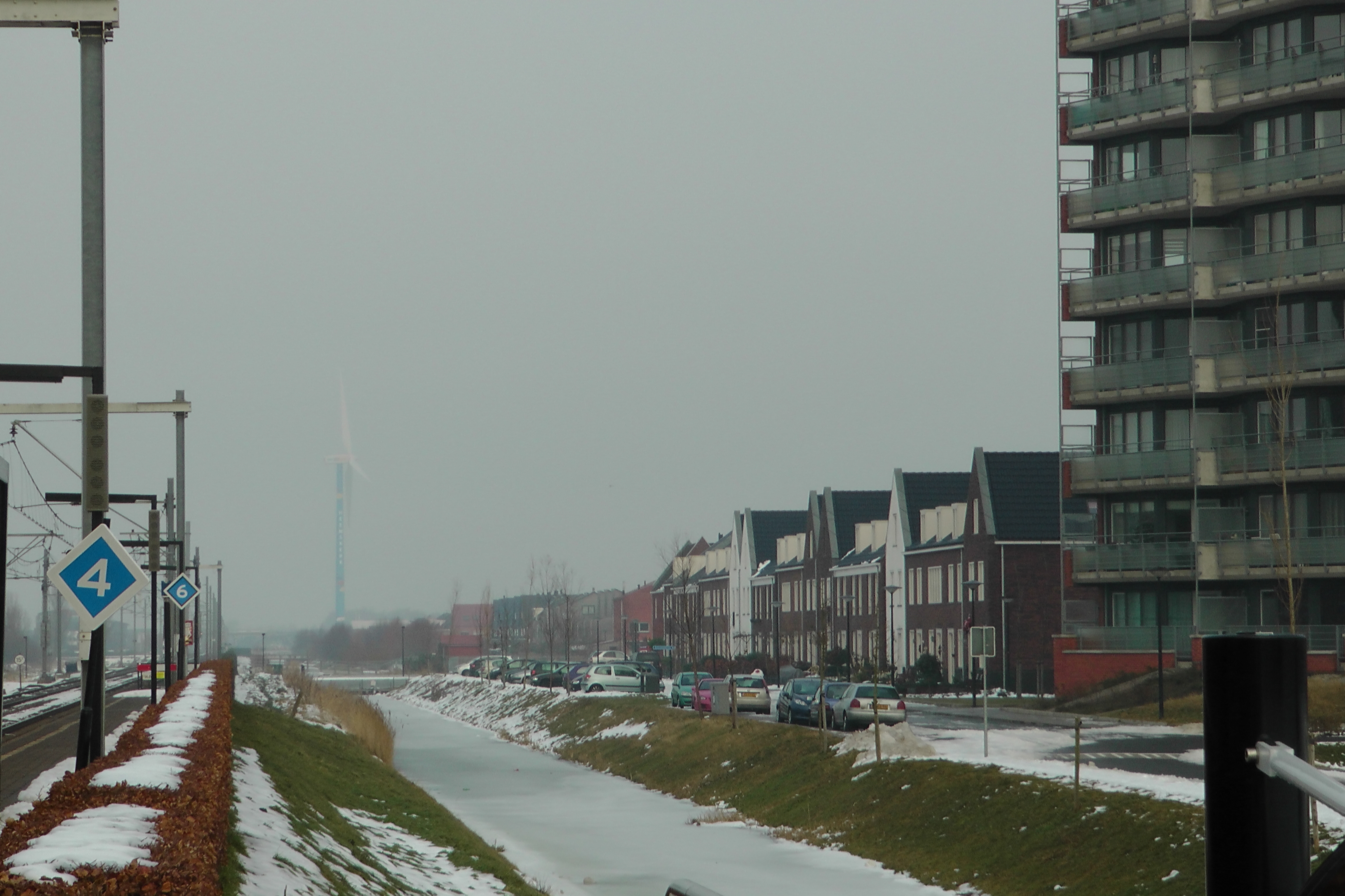 Heemskerk, The Netherlands in 2010.